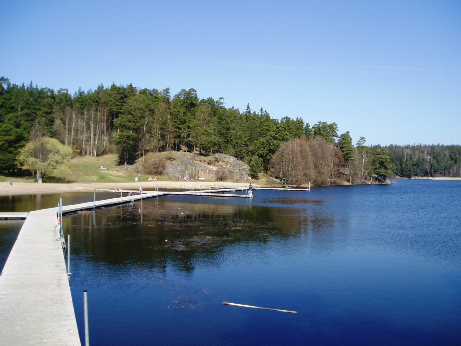 Rösjön, lake in Uppland, Sweden